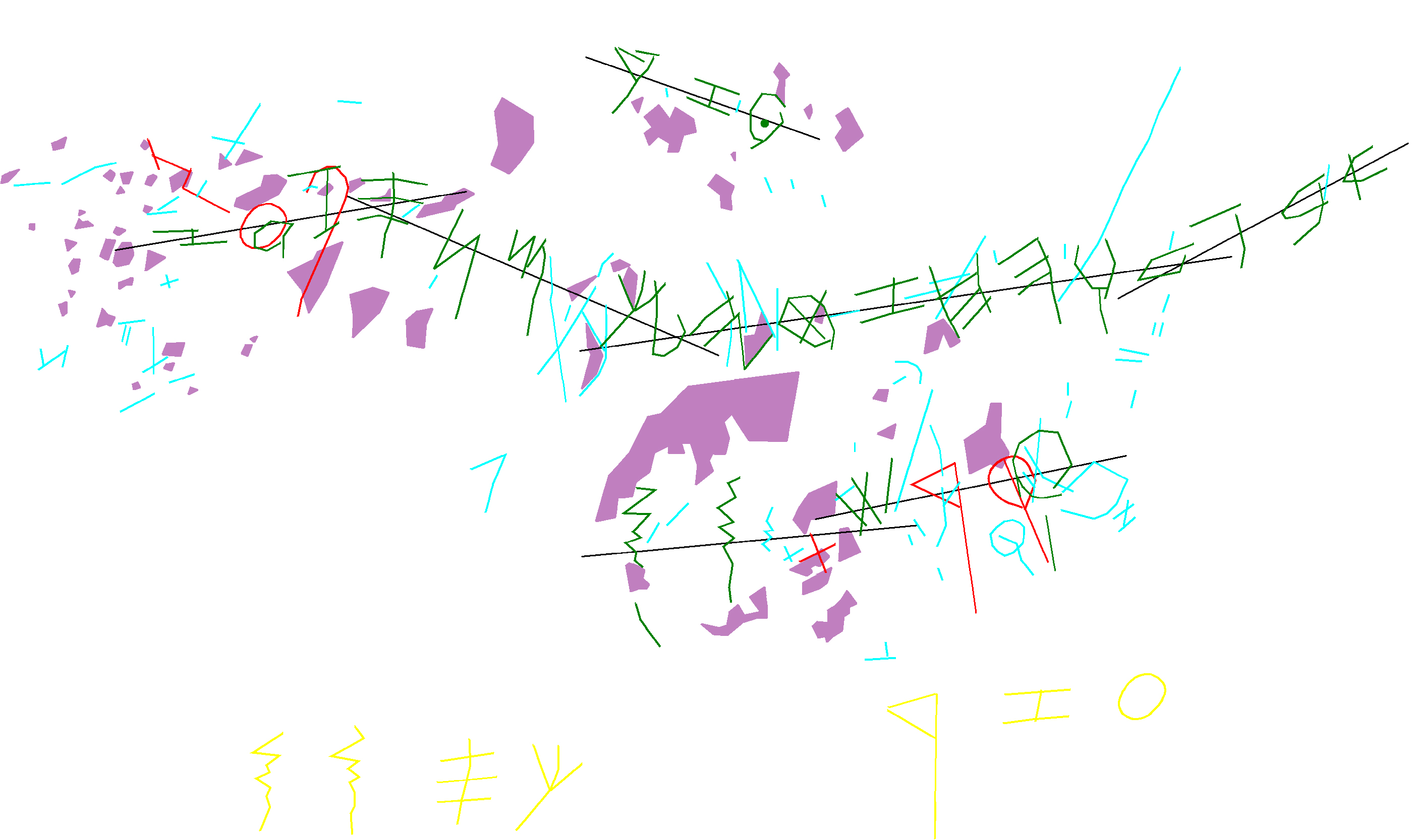 This is a drawing I made of ancient inscriptions & other markings on the Zayit Stone excavated in modern Israel during 2005. I grant any entity the right to use this work for any purpose, without any conditions, unless such conditions are required by law.